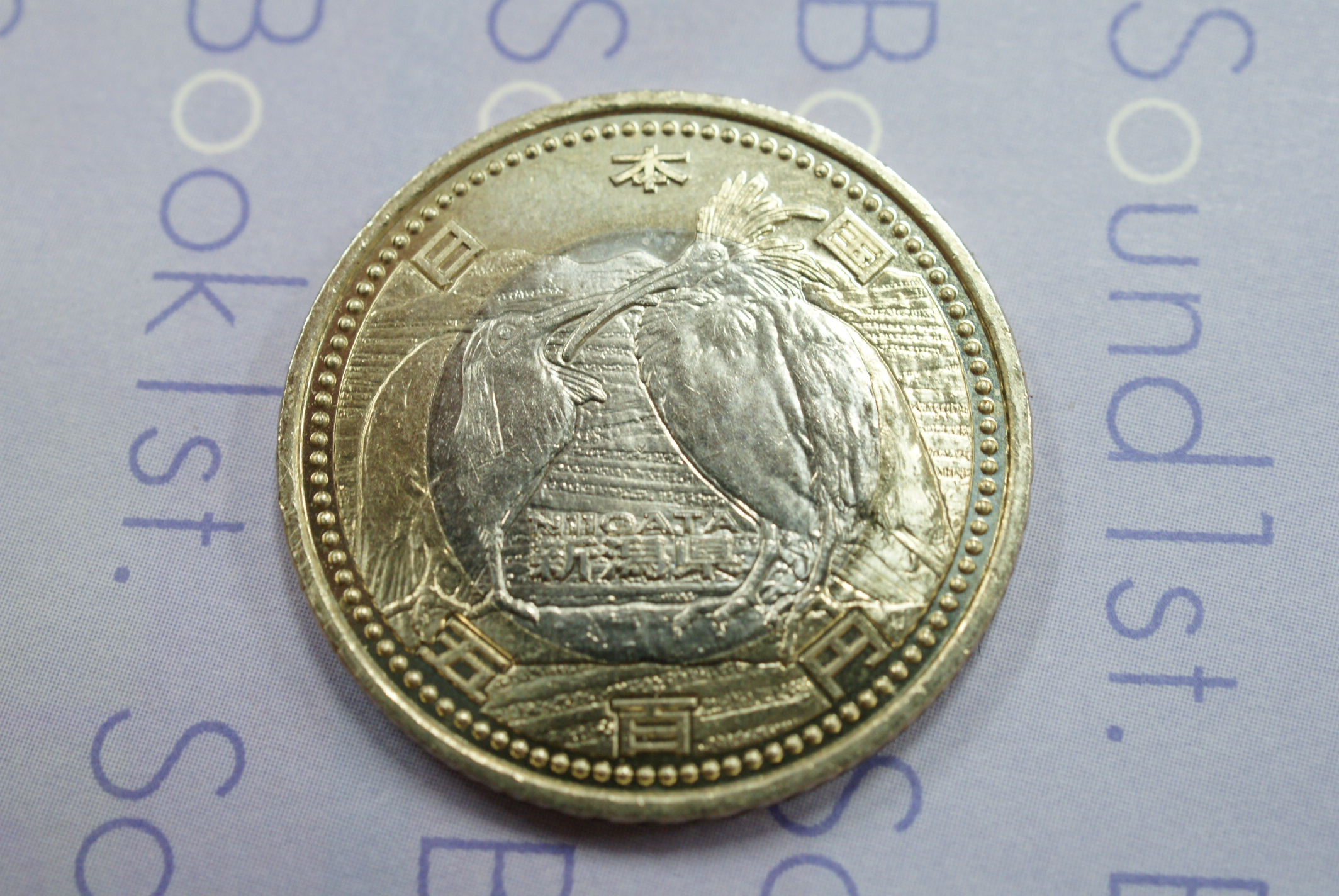 Japan Commemorative 500 Yen coin